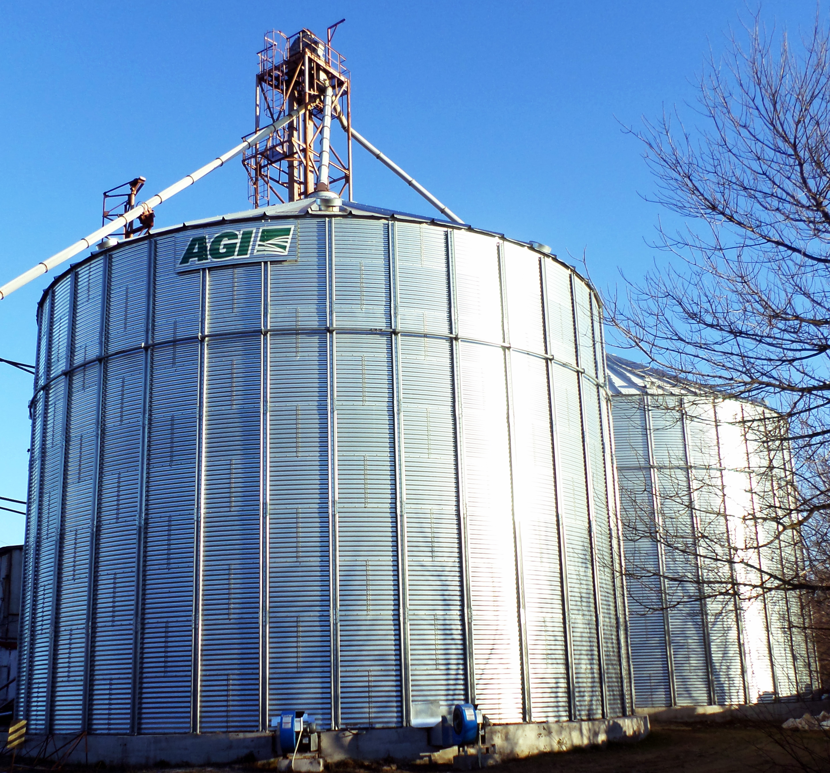 Source = Own work | Author = Eugene Zvarich